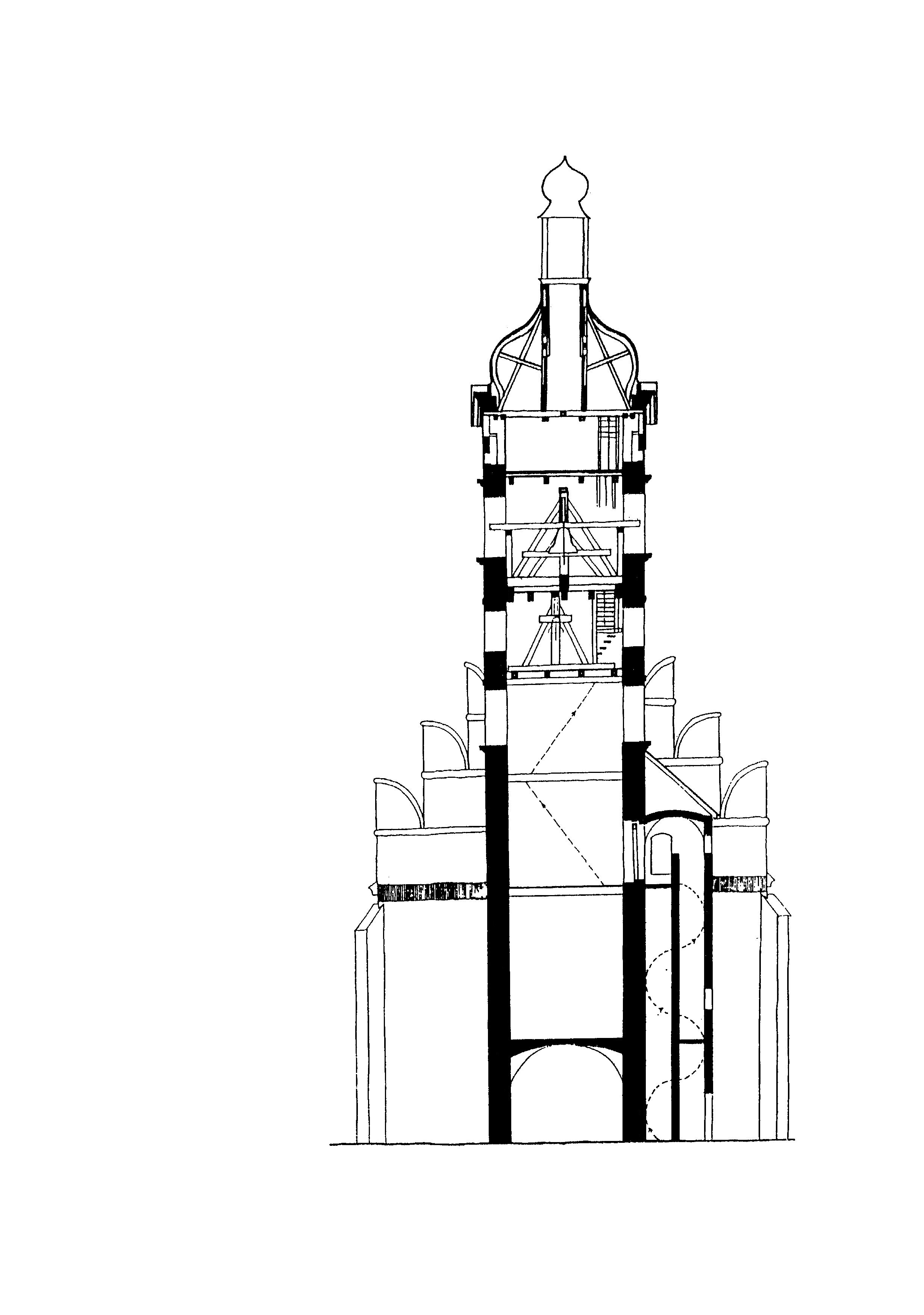 Kostel sv. Voršily, Chlumec nad Cidlinou